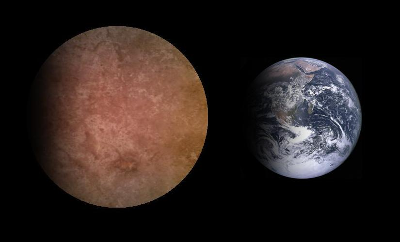 Relative sizes of the extrasolar planet Gliese 436 c (mass ~0.04 MJ) and the Earth.